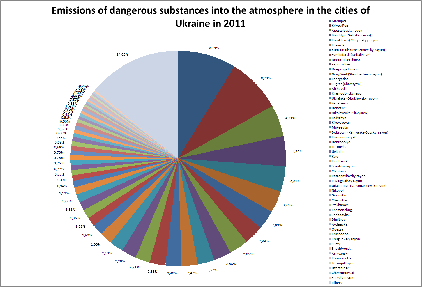 According to the Express Editions of regional statistical offices of Ukraine in 2011